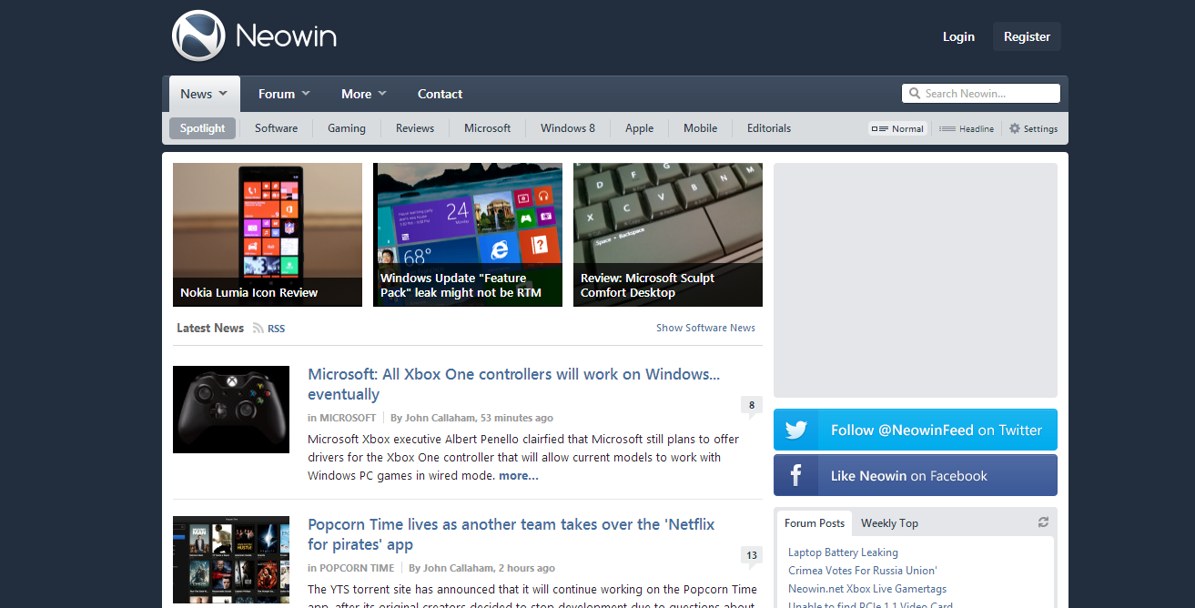 Screenshot of homepage